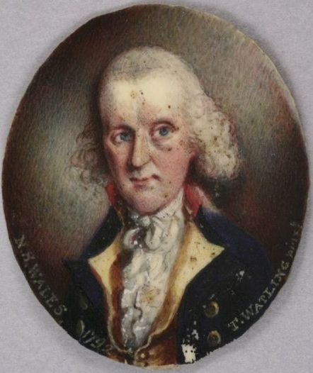 Miniature of John White Esq, Surgeon General of New South Wales Thomas Watling (1762-c.1814) Australian unframed oil on ivory signed and dated N.S.Wales 1792